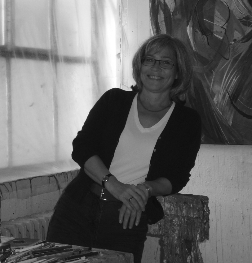 Self portrait of Tina Juretzek in her art studio 2010